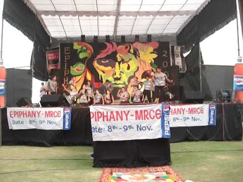 Festival at the Manav Rachna College Of Engineering